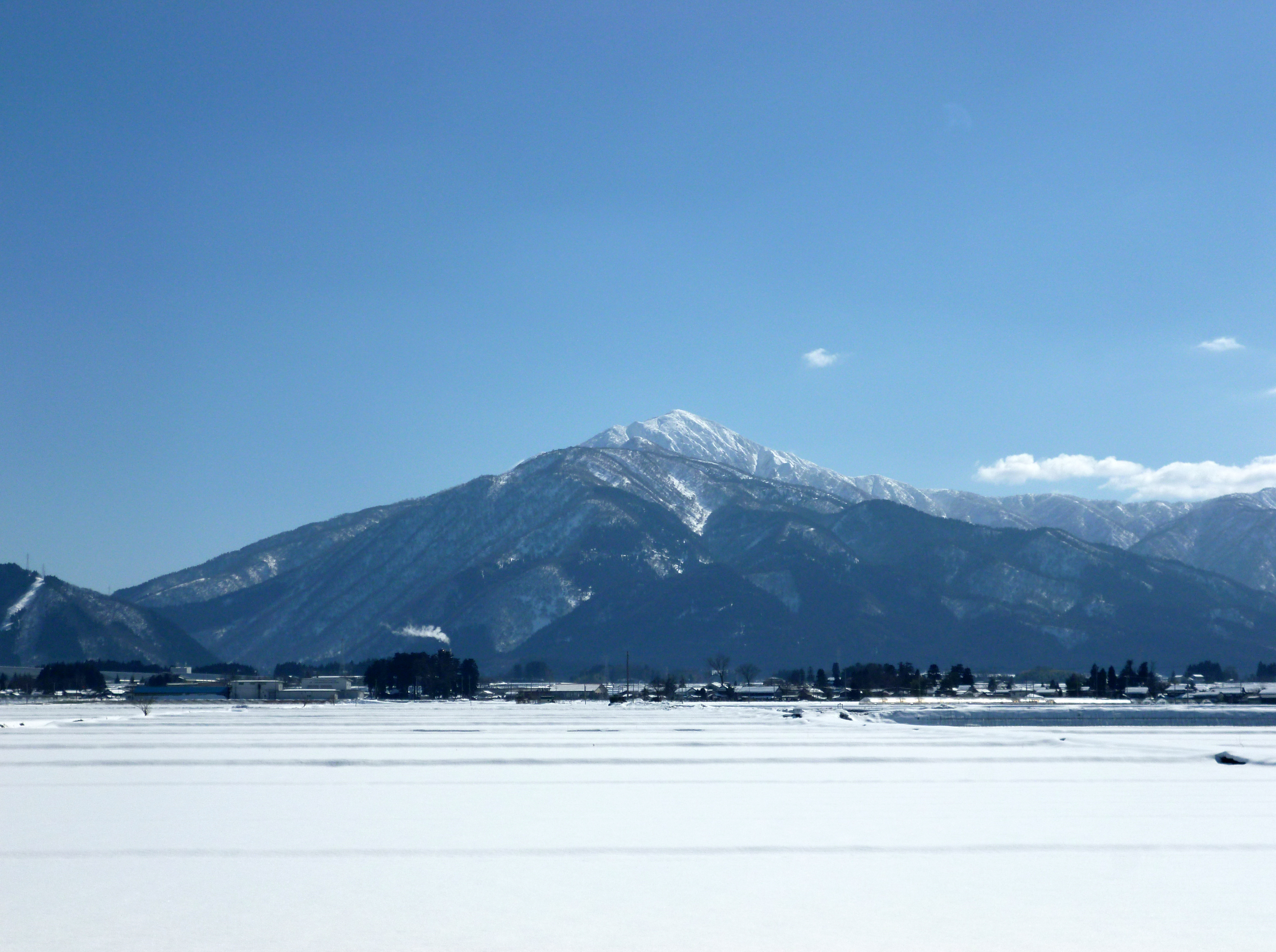 Mount Arashima in Chūbu region, Japan. A view from Ōno, Fukui.